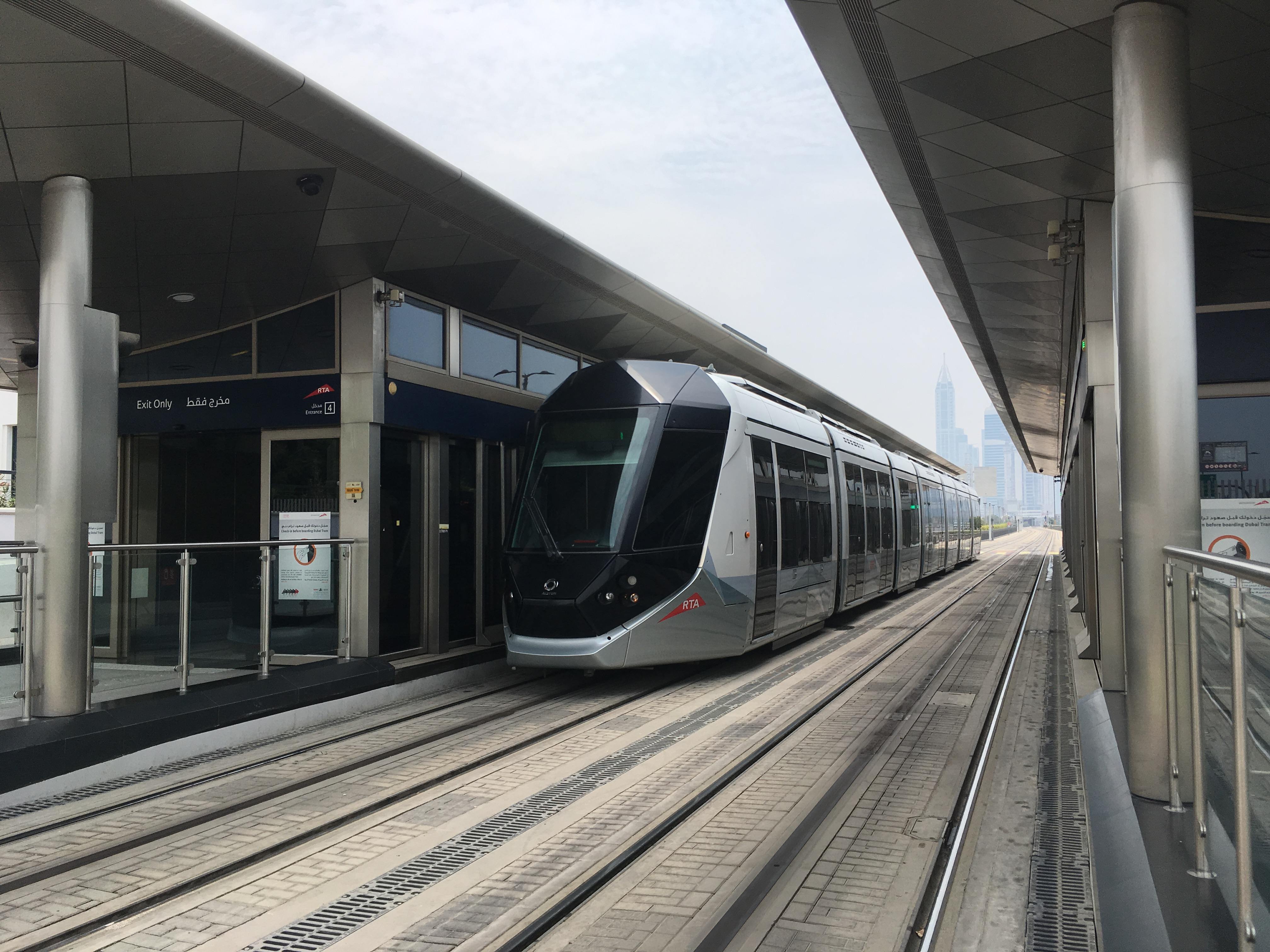 A Dubai Tram Alstom Citadis 402 at Al Sufouh station